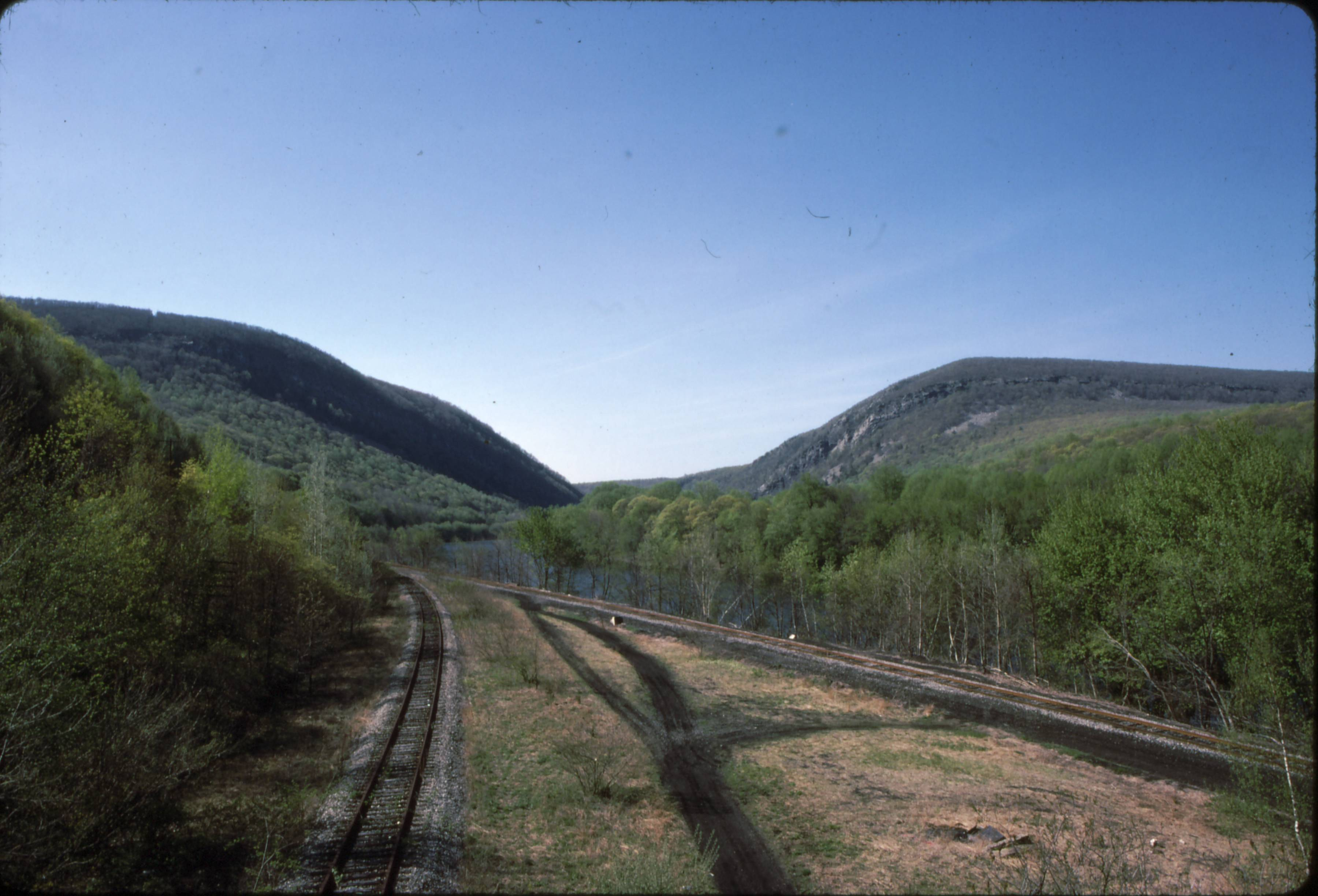 Chuck Walsh photo